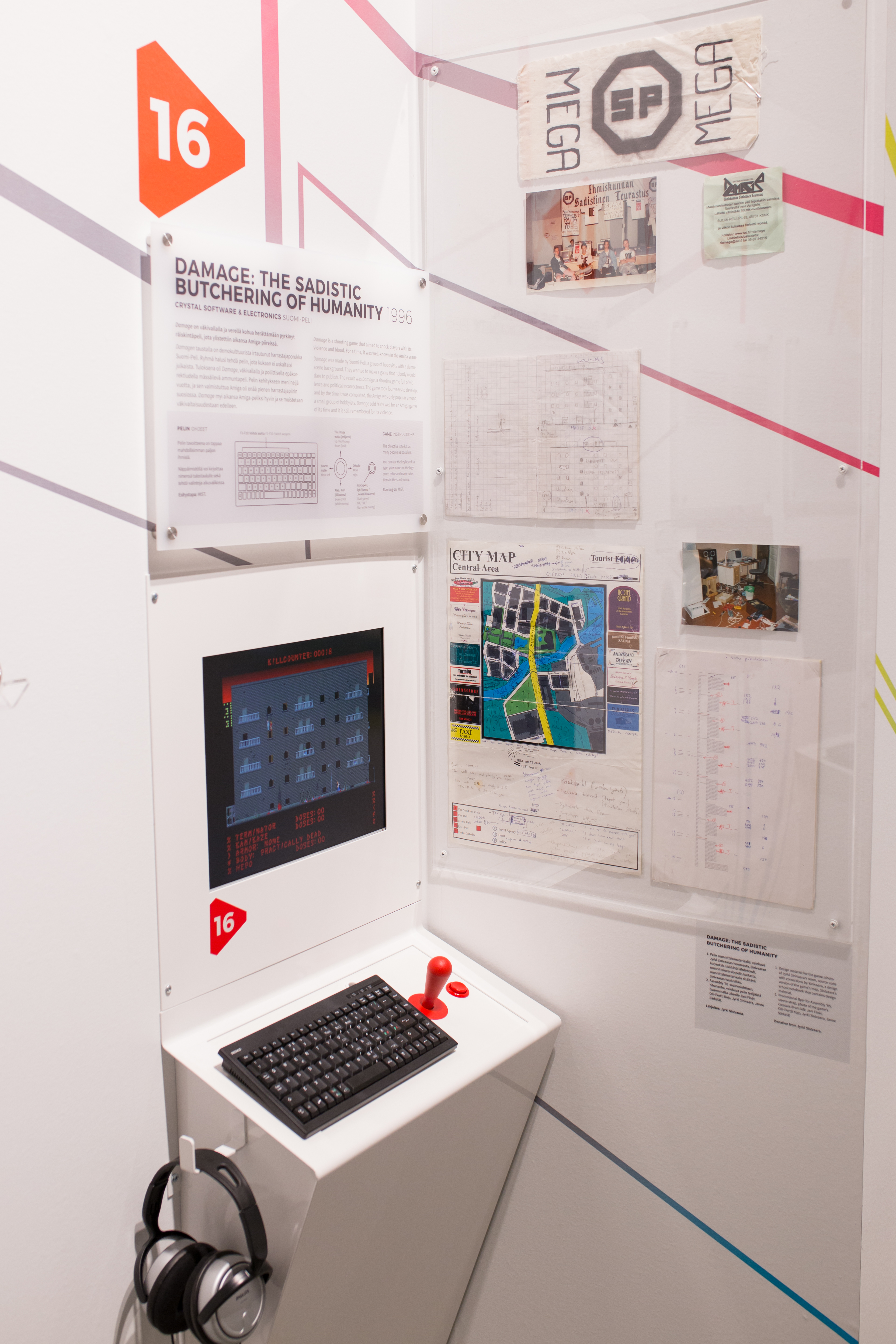 Damage: The Sadistic Butchering of Humanity in the Finnish Museum of Games. On the wall materials related to the development of the game.